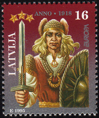 Postage stamp issued by Latvia 1993 depicting Lāčplēsis.